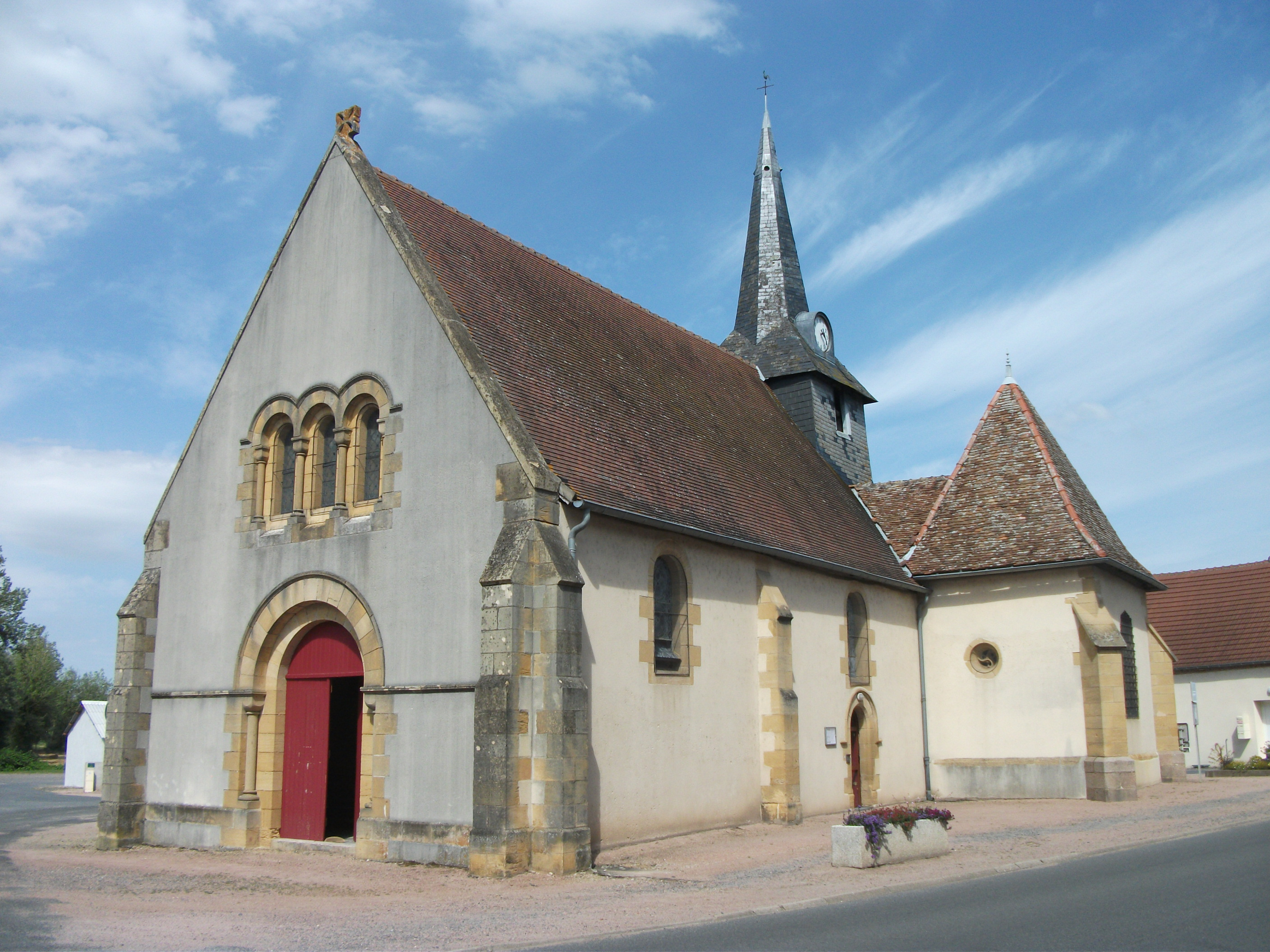 Church of Coulanges, Allier, Auvergne-Rhône-Alpes, France [15046]